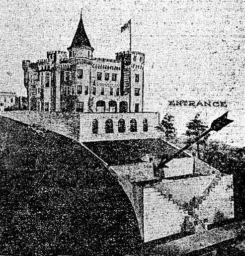 The Dr. Charles V. Paterno Castle in the Hudson Heights section of the Washington Heights neighborhood in Upper Manhattan, New York City, as portrayed in the June 7, 1908 issue of The New York Times